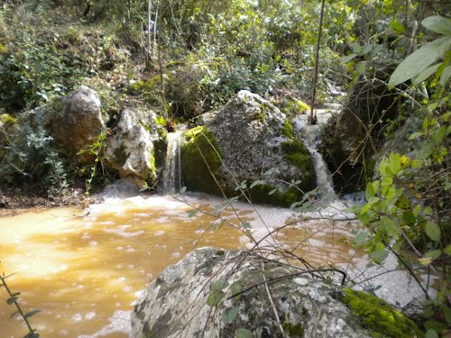 Barranc de la Caldera